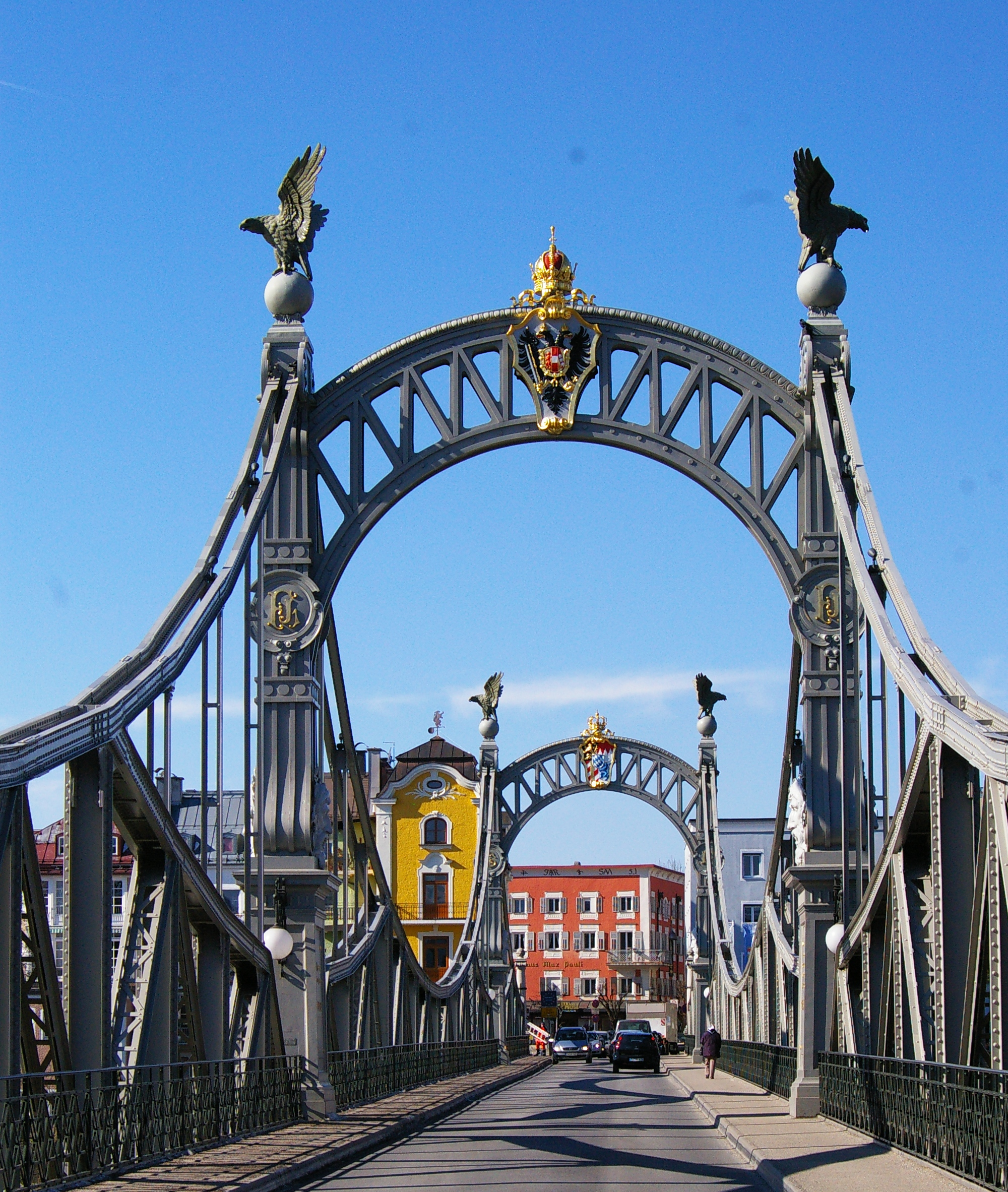 Bridge to Laufen (Bavaria, Germany) seen from Oberndorf (state of Salzburg, Austria)